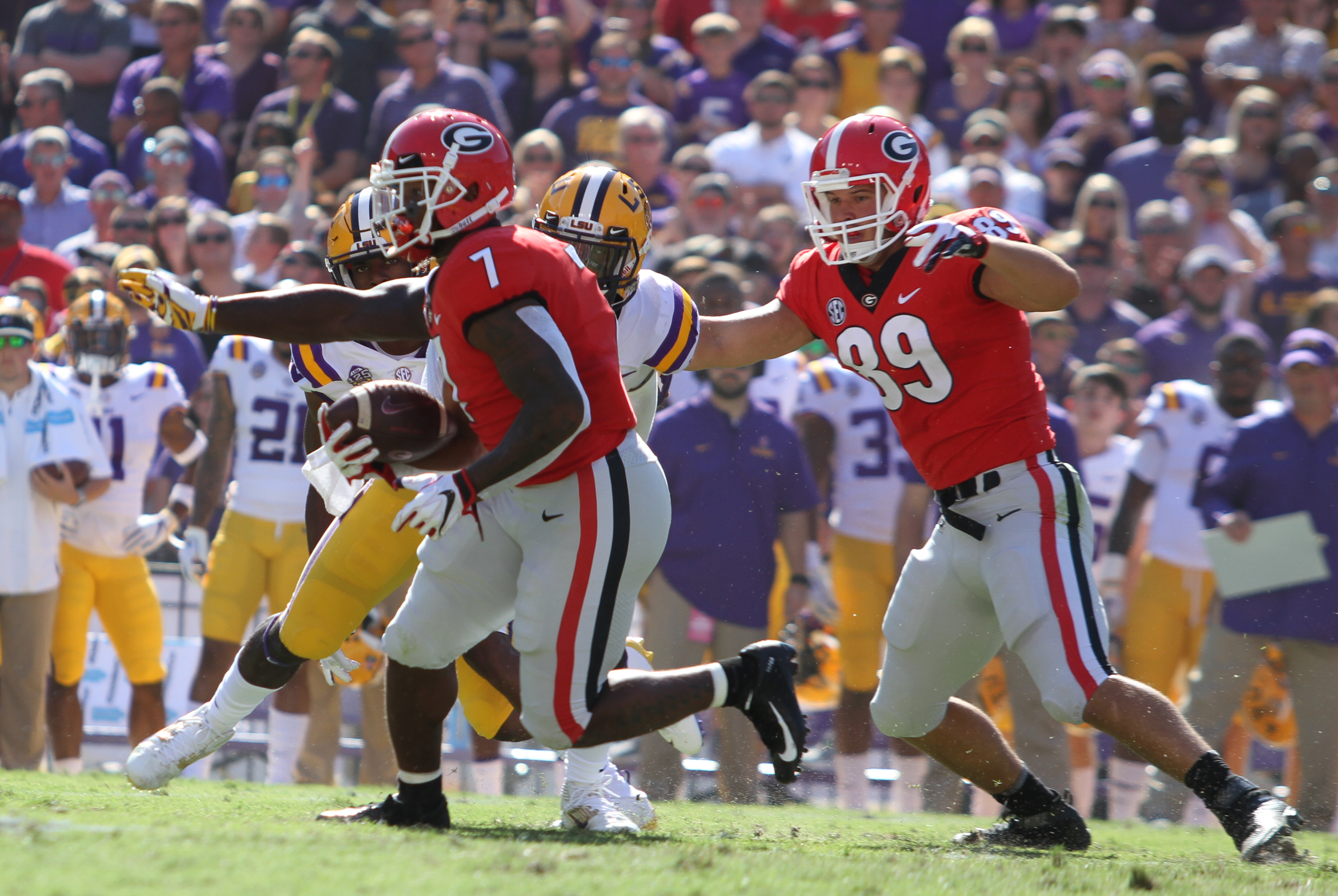 Georgia Bulldogs running back D'Andre Swift (7) and tight end Charlie Woerner (89), Georgia Bulldogs vs LSU Tigers, Football, Tiger Stadium, October 13, 2018, Baton Rouge, Louisiana, Tammy Anthony Baker, Photographer